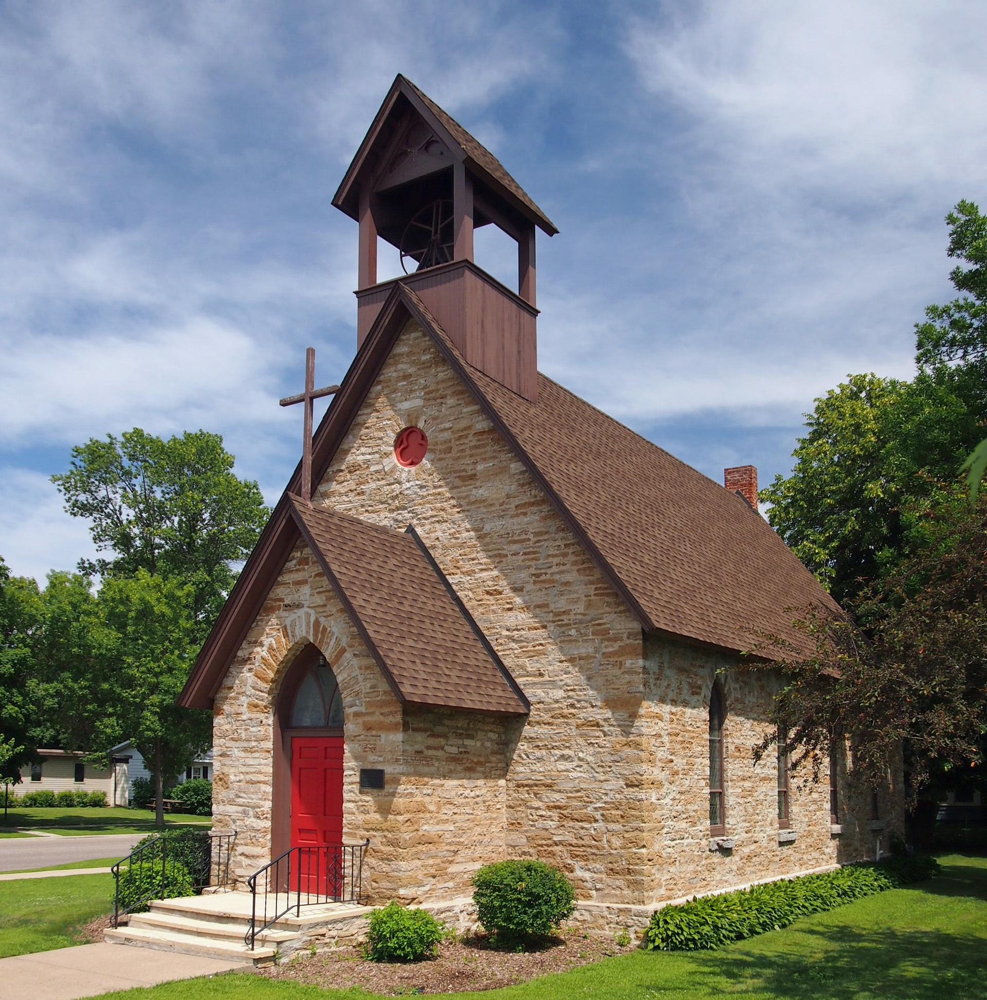 Church of the Redeemer, Cannon Falls, Minnesota, USA. Shot from the southwest on a stepstool.